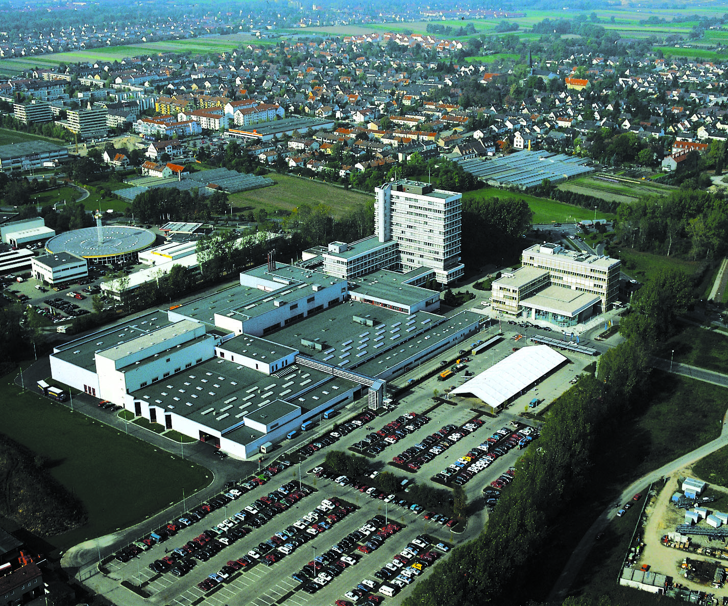 Augsburger Allgemeine, Medienzentrum - Luftperspektive